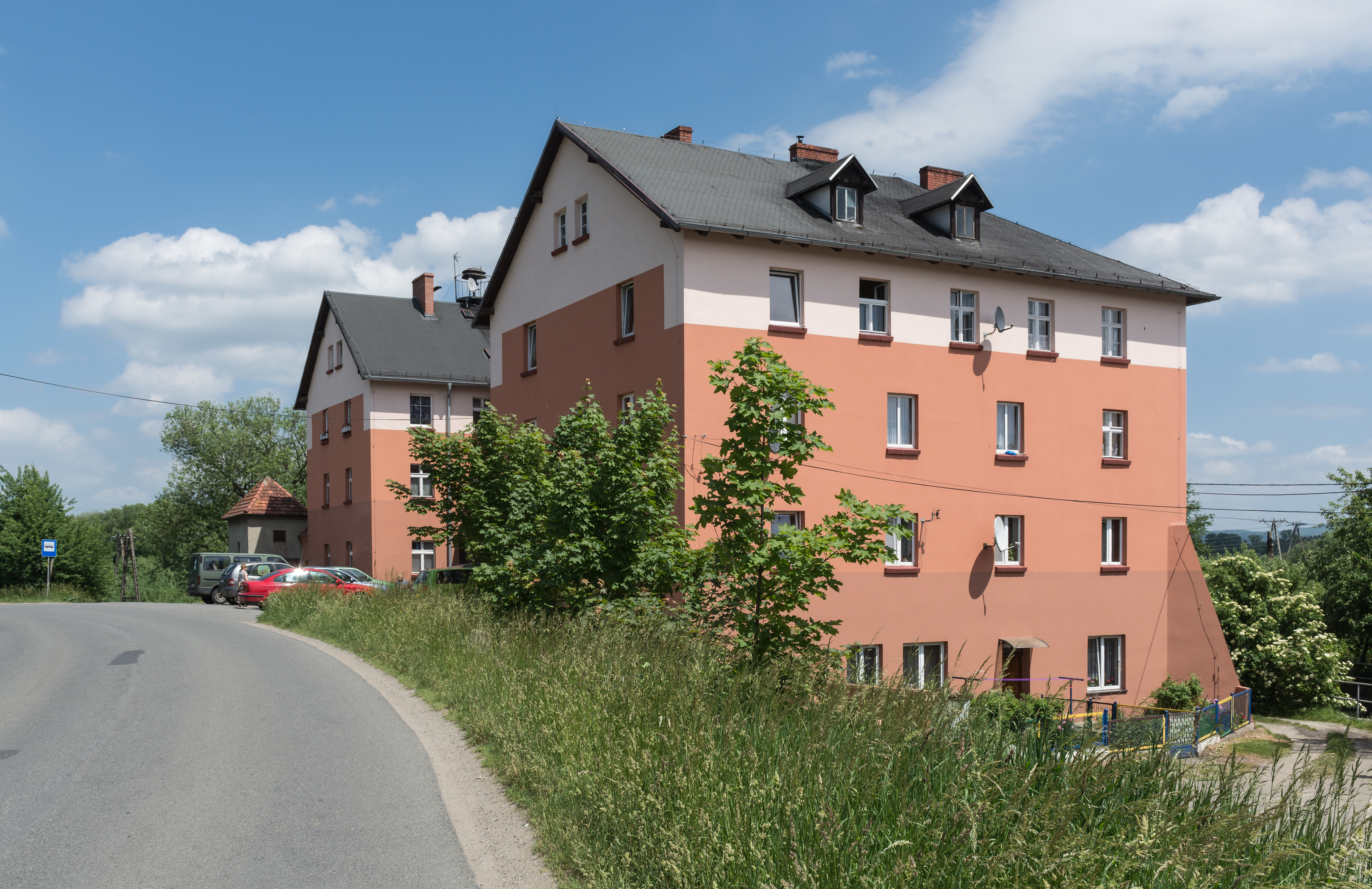 Korczaka Street in Kłodzko